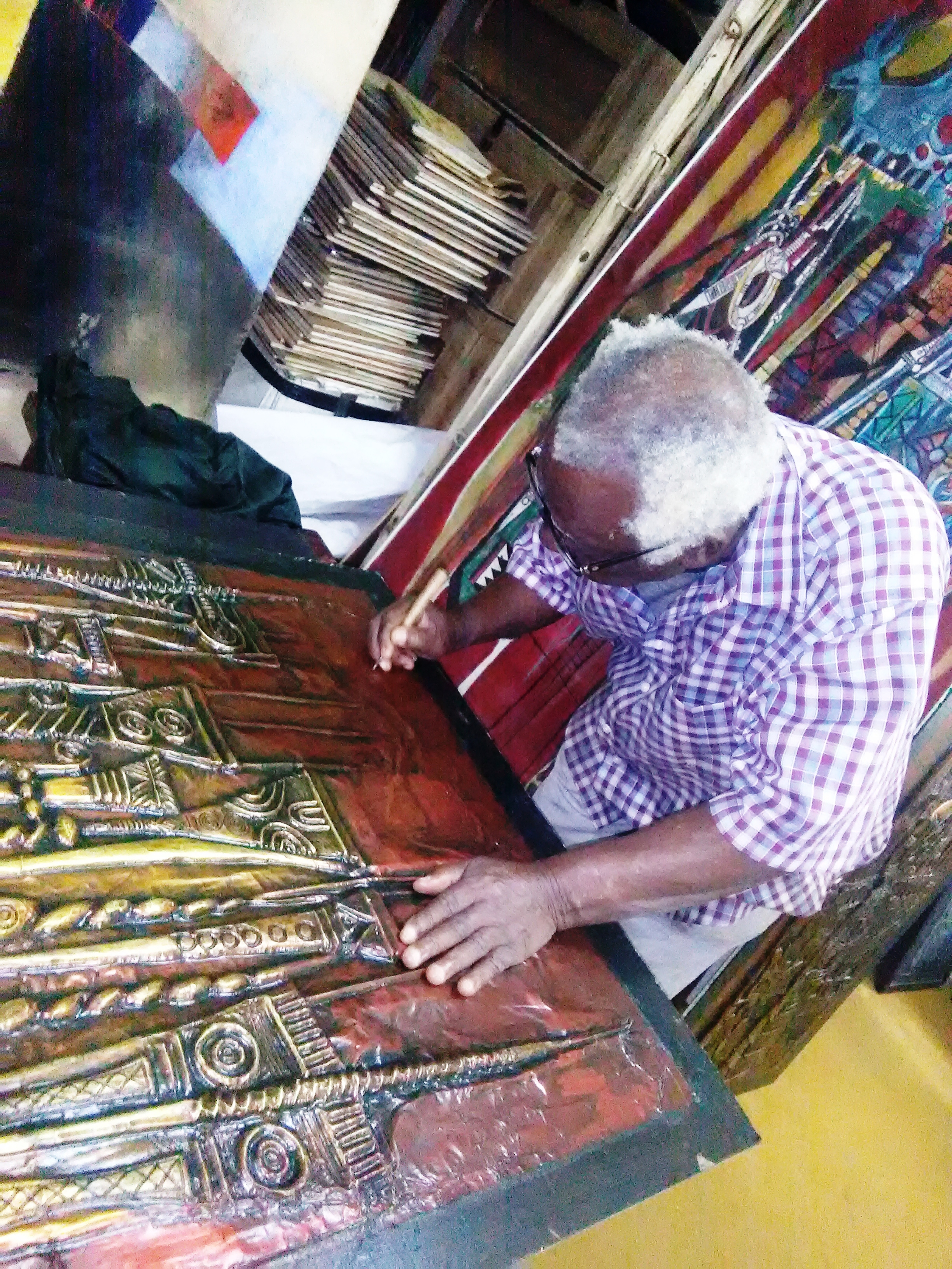 Nigerian Living National Treasure Bruce Onobrakpeya while signing one of his iconic art pieces Emetore, in his Ovuomaroro Studio, Papa - Ajao, Mushin inthe outskirts of Lagos from where he has created his art for almost fifty years. Onobrakpeya is not only the grand father of modern Nigerian art, but is also widely regarded as The Pride of all Nigerians. This is an image of "African people at work" from Nigeria